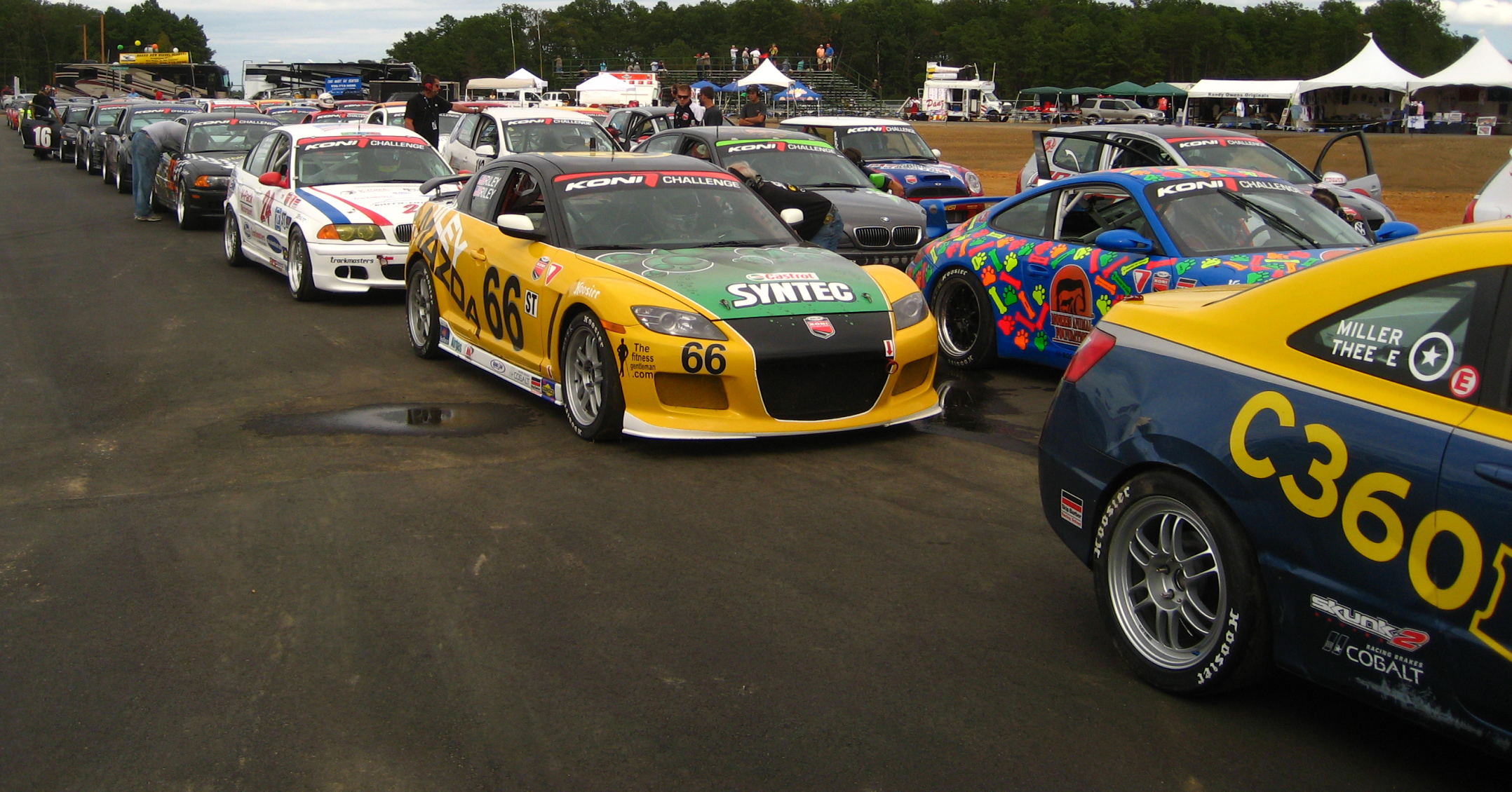 Multiple competitors from the Grand-Am KONI Challenge Series lined up prior to qualifying.